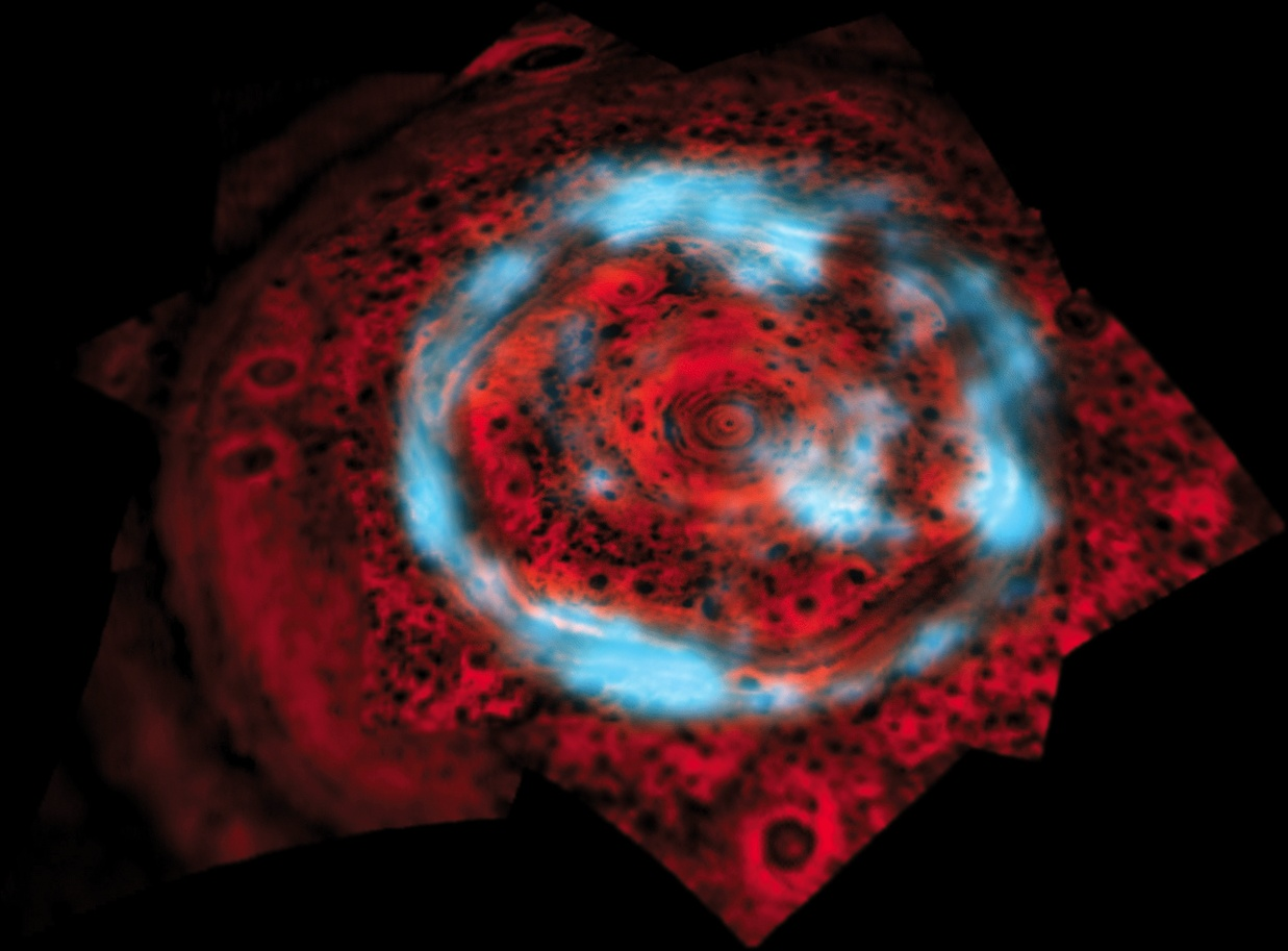 Composite infrared image of Saturn at 4 µ (H3+, taken on November 10, 2006) shown in blue and 5 µ shown in red colour (taken on June 15, 2008). It shows the northern polar aurora of the Saturn at 4 µ over the atmosphere at 5 µ with its polar hexagonal cloud pattern and vortex. The images were taken by the Cassini spacecraft.